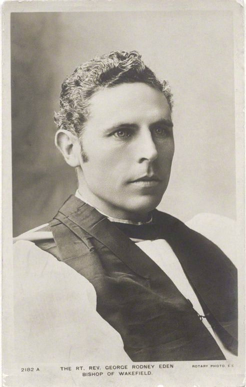 George Rodney Eden (1853-1940), Bishop of Dover until 1897, then Bishop of Wakefield 1897-1928.